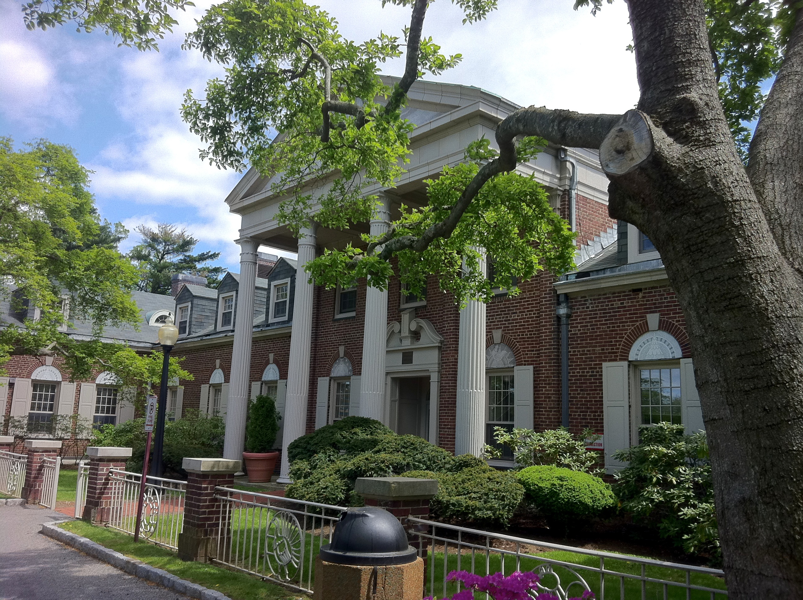 NYMC Sunshine Cottage Front